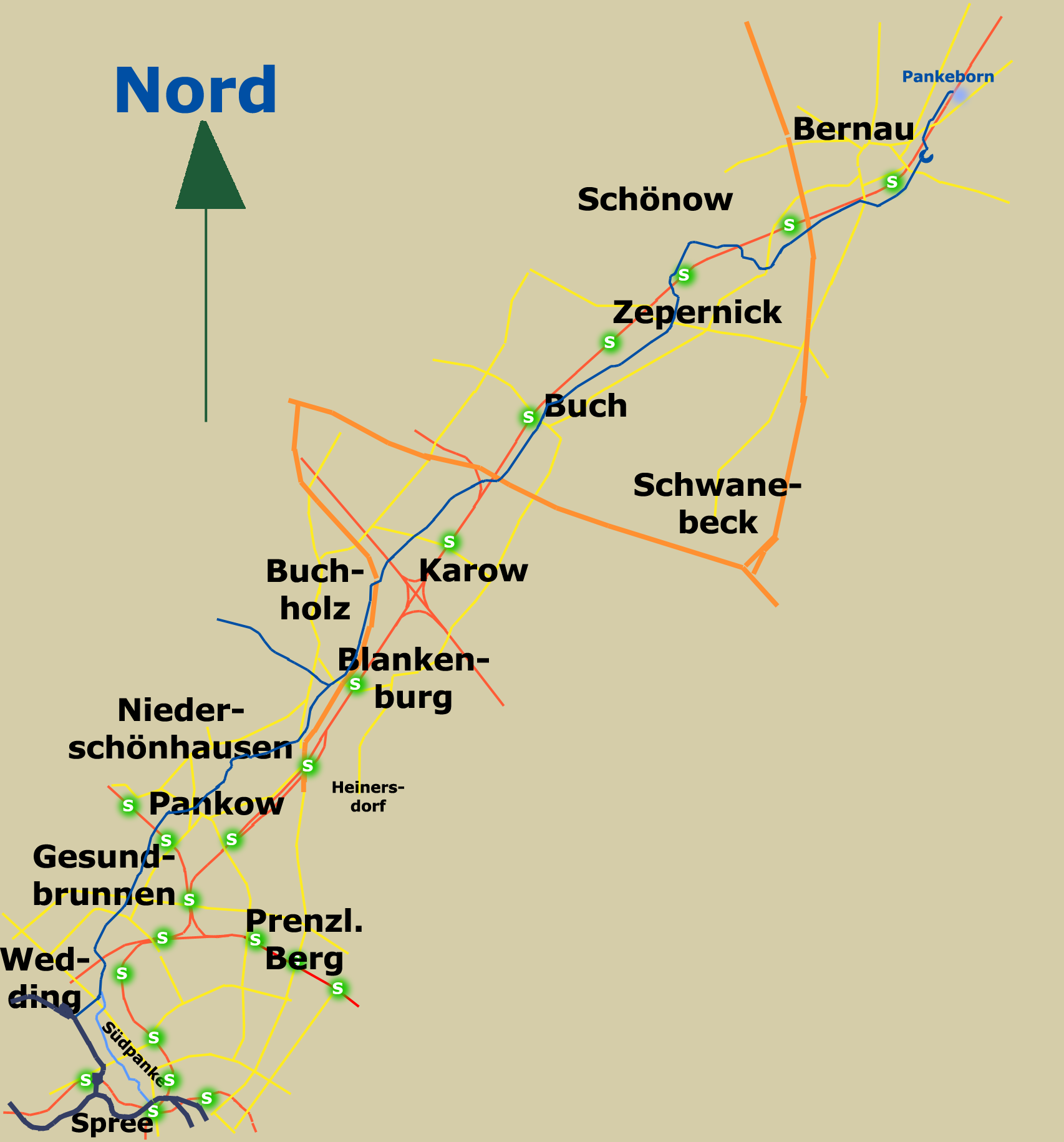 The River Panke from Bernau near Berlin to Berlin-Mitte